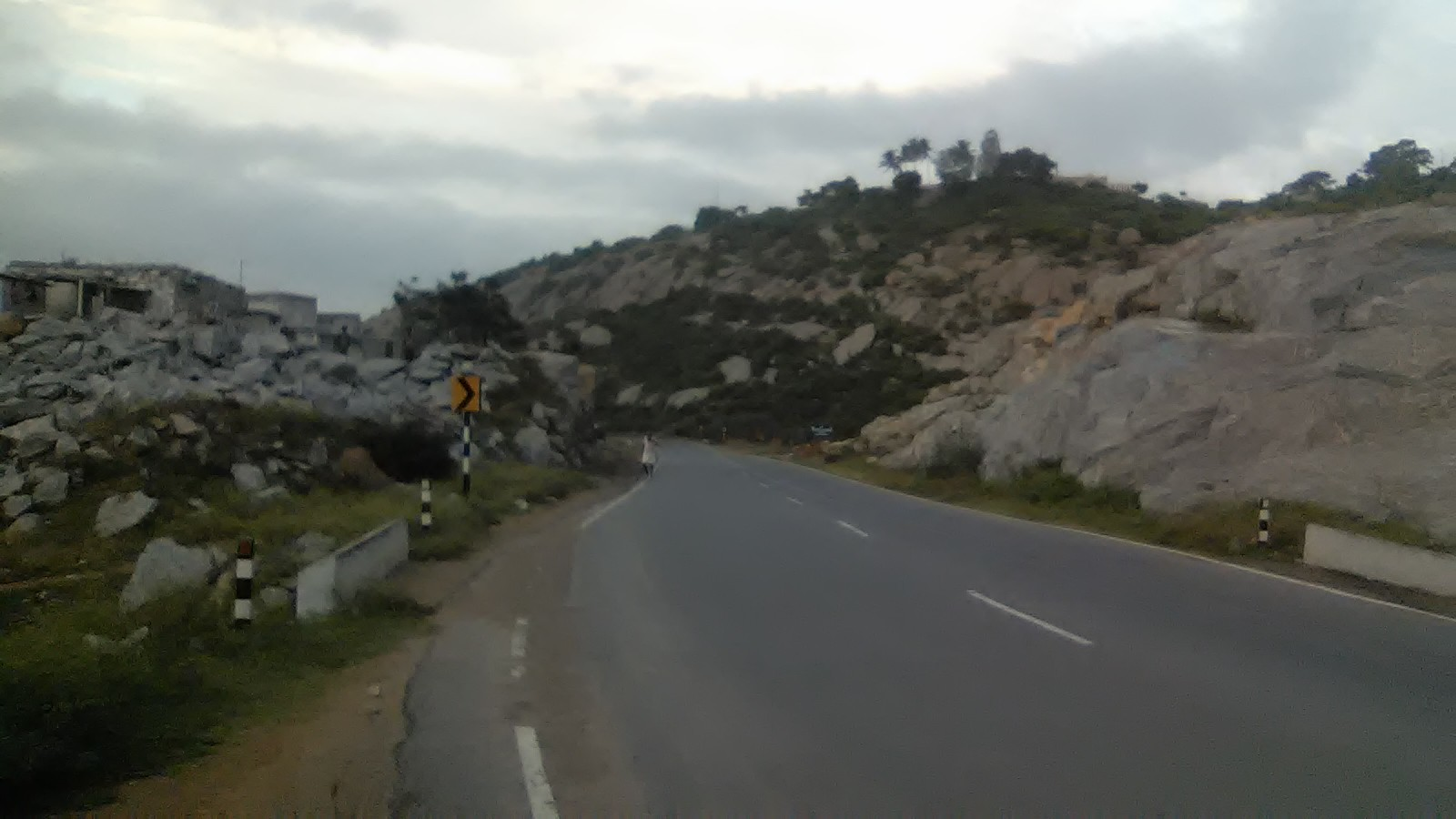 ஒசூர் உள்வட்டச்சாலையின் ஒரு பகுதி